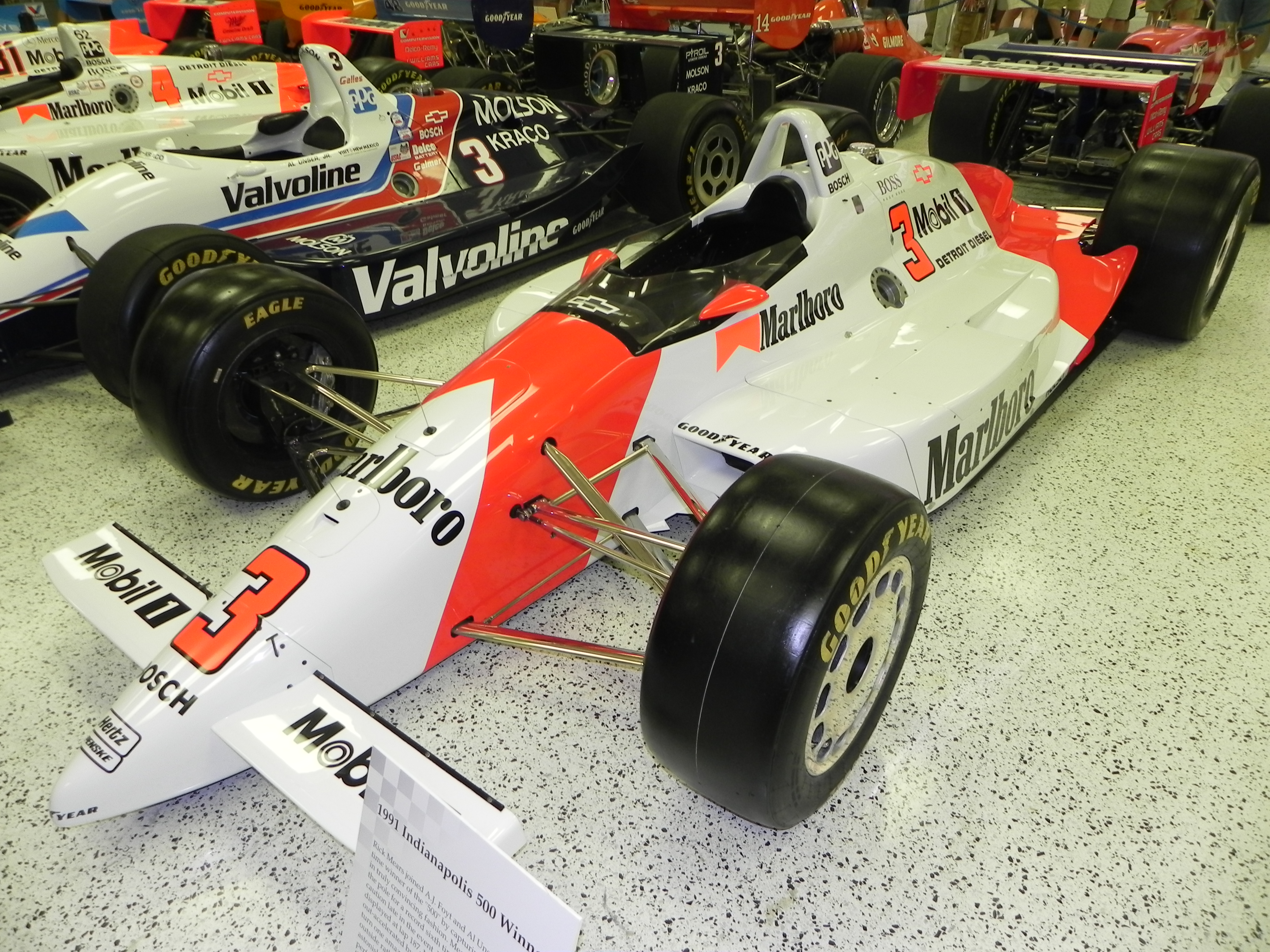 Image of the winning car of the 1991 Indianapolis 500 (Rick Mears). Photo was taken at the Indianapolis Motor Speedway Hall of Fame Museum, during the month of May 2011, at the 100th Anniversary "Ultimate Indianapolis 500 Winning Car Collection."